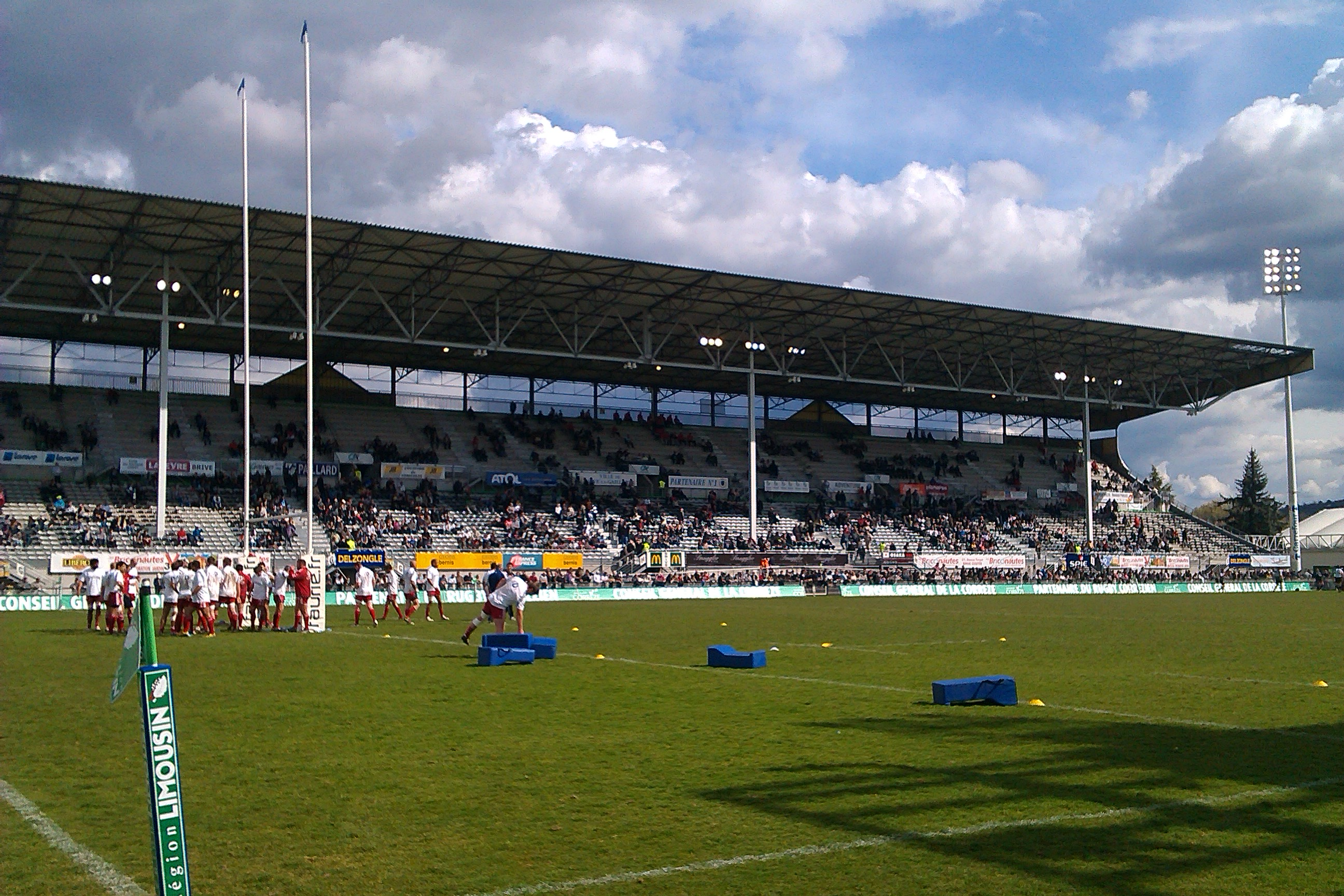 2012–13 Rugby Pro D2 season — 24 March 2013, Stade Amédée-Domenech. Match between: CA Brive — US Dax